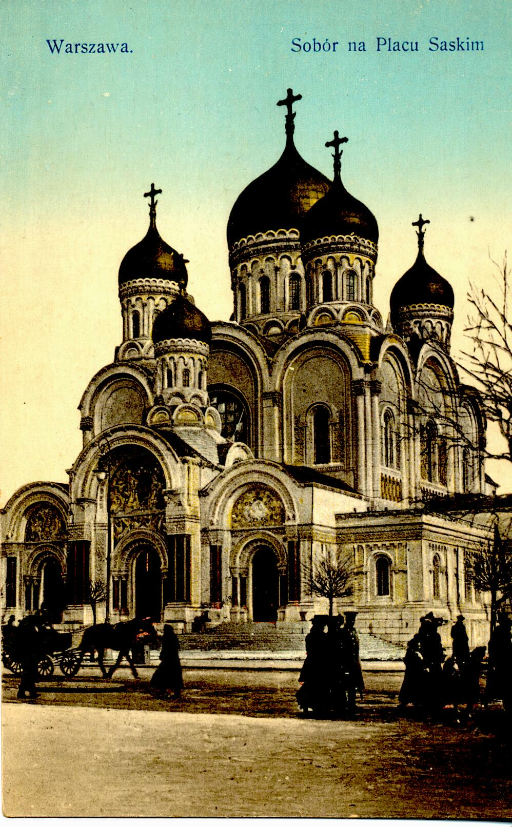 Warsaw (Poland), Alexander Nevsky Cathedral